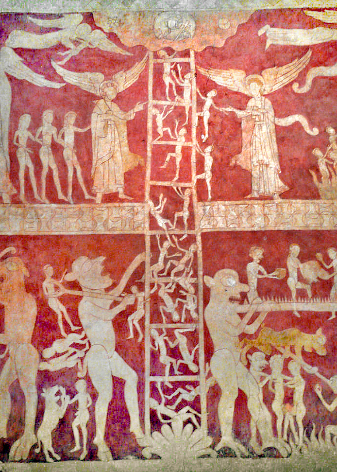 12c wall painting at the Parish Church of St. Peter & St. Paul, Chaldron, Surrey, England